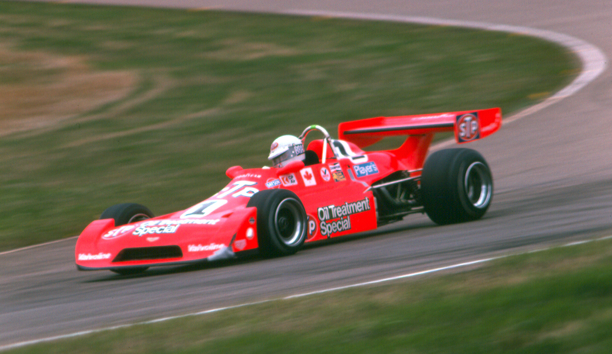 Bill Brack at the Edmonton International Speedway Formula Atlantic Race.